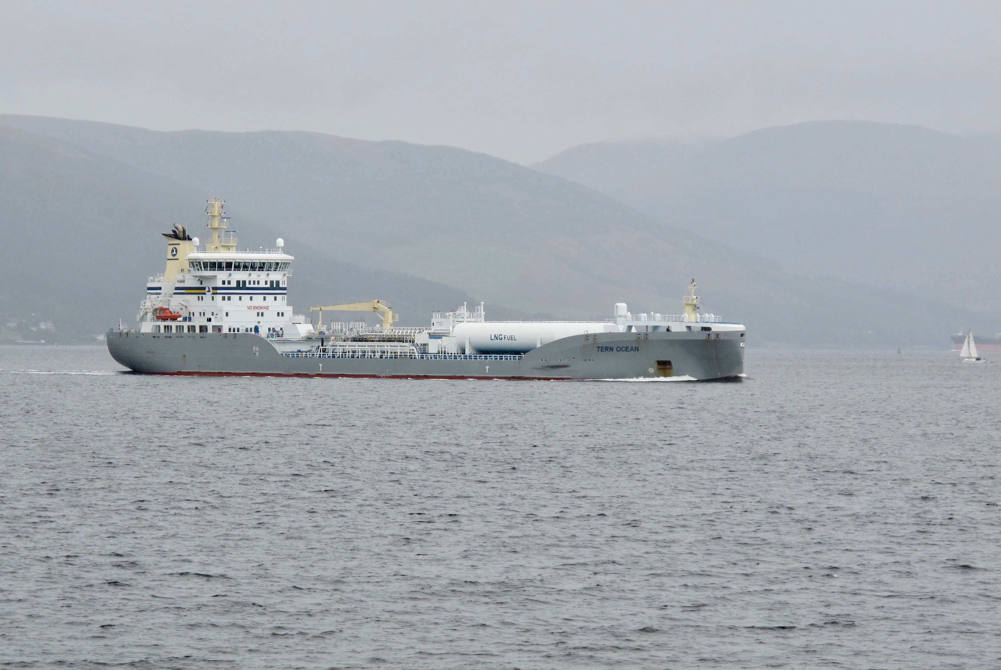 LNG propulsed oil / chemical tanker Tern Ocean, heading up the Firth of Clyde seen from Gourock pierhead. IMO number 9747986 operated by Tarntank Ship Management AB of Denmark Delivered 15 March 2017 [1]